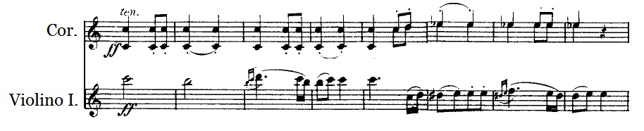 Fugue theme of Allegretto of Ludwig van Beethoven's Symphony No. 7 in A major, Op. 92